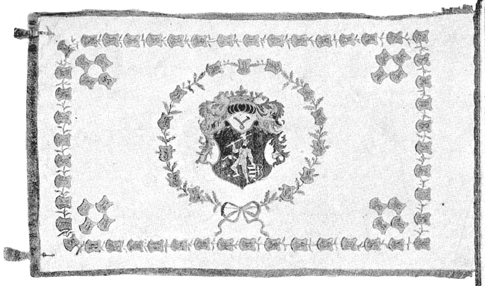 Flag of the Upper Hungarian Educational Association.